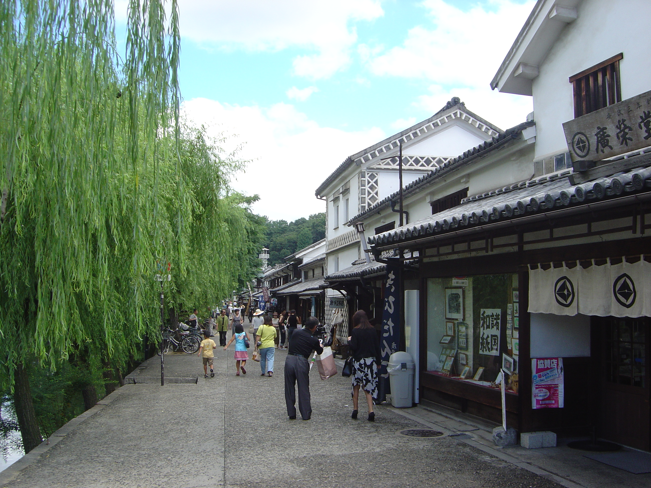 a quay with 19th century warehouses in Kurashiki, Japan